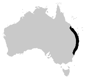 Distribution of the Tusked Frog (Adelotus brevis).